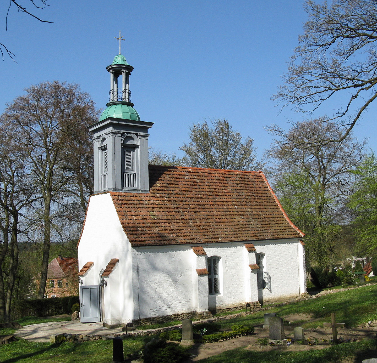 Church in Penzin, district Ludwigslust-Parchim, Mecklenburg-Vorpommern, Germany